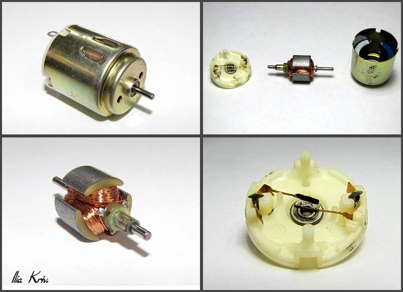 4 slides that show a common brushed DC electric motor and its insides: rotor (armature), brushes (commutator) and a stator (with permanent magnets)